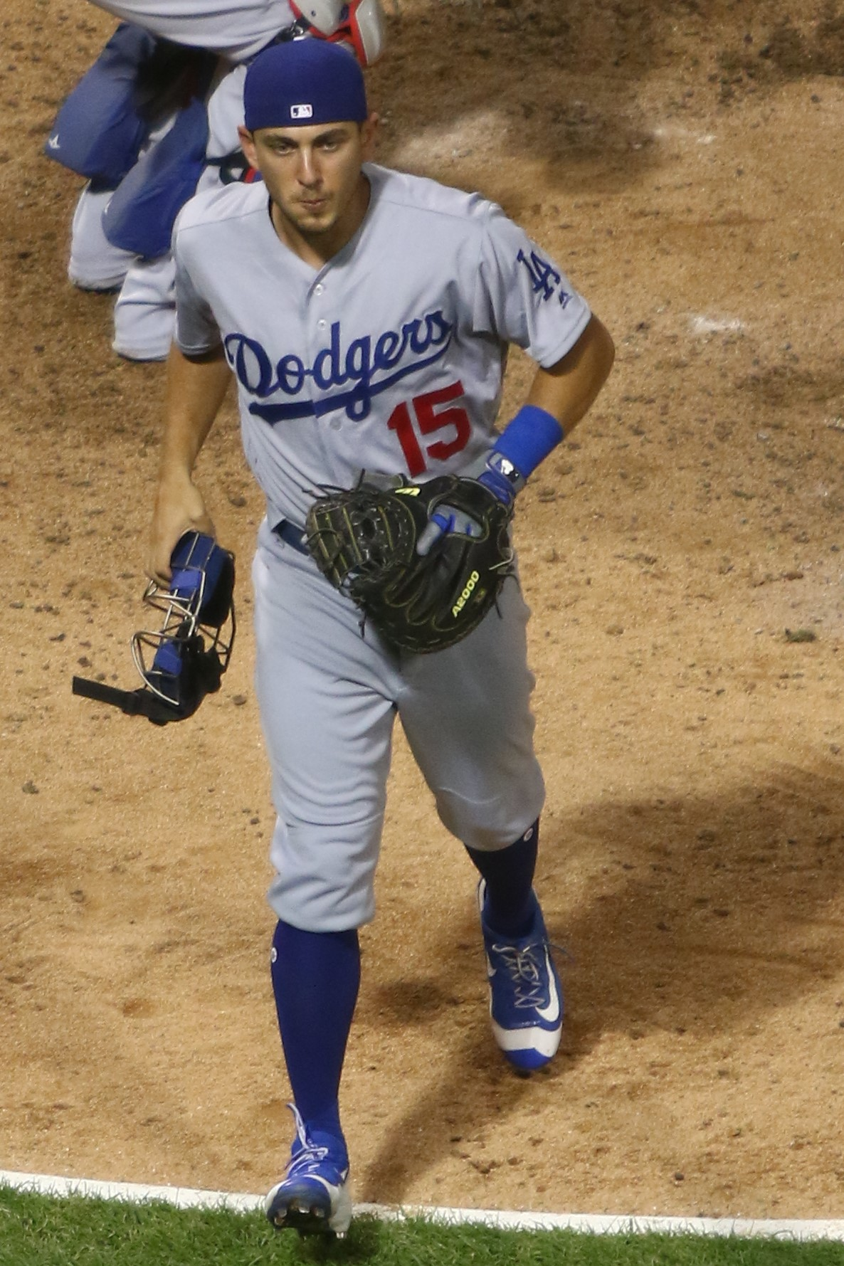 Austin Barnes for the 2017 Los Angeles Dodgers